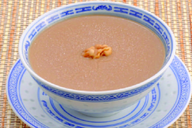 Walnut paste